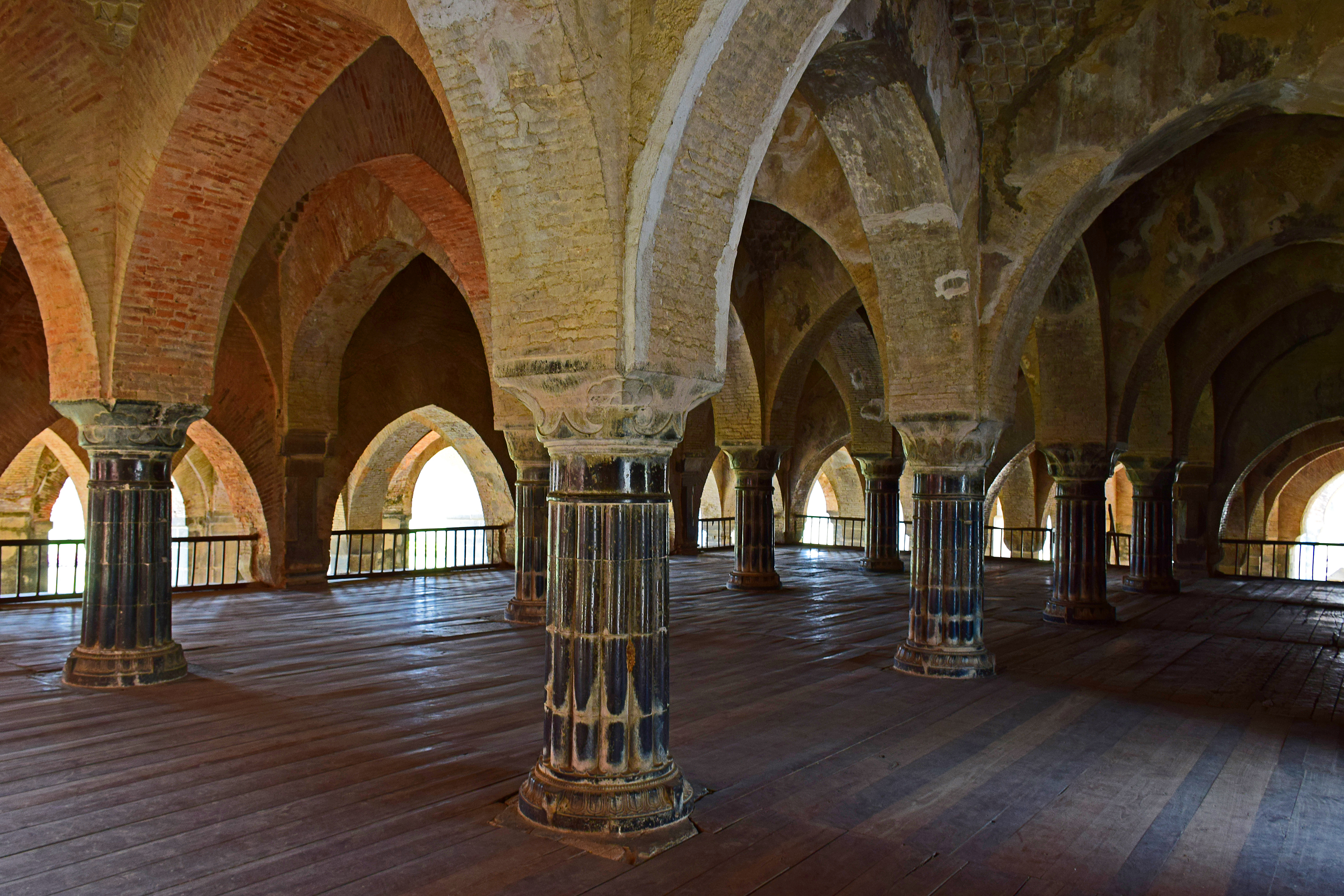 Adina Masjid Badshah Ki Takht 2